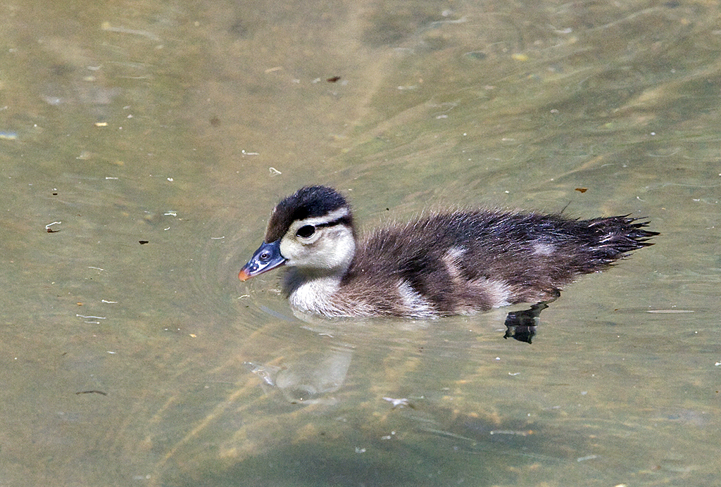 Wood Duck (Aix sponsa) chick, Chaffee Zoo, Fresno, California